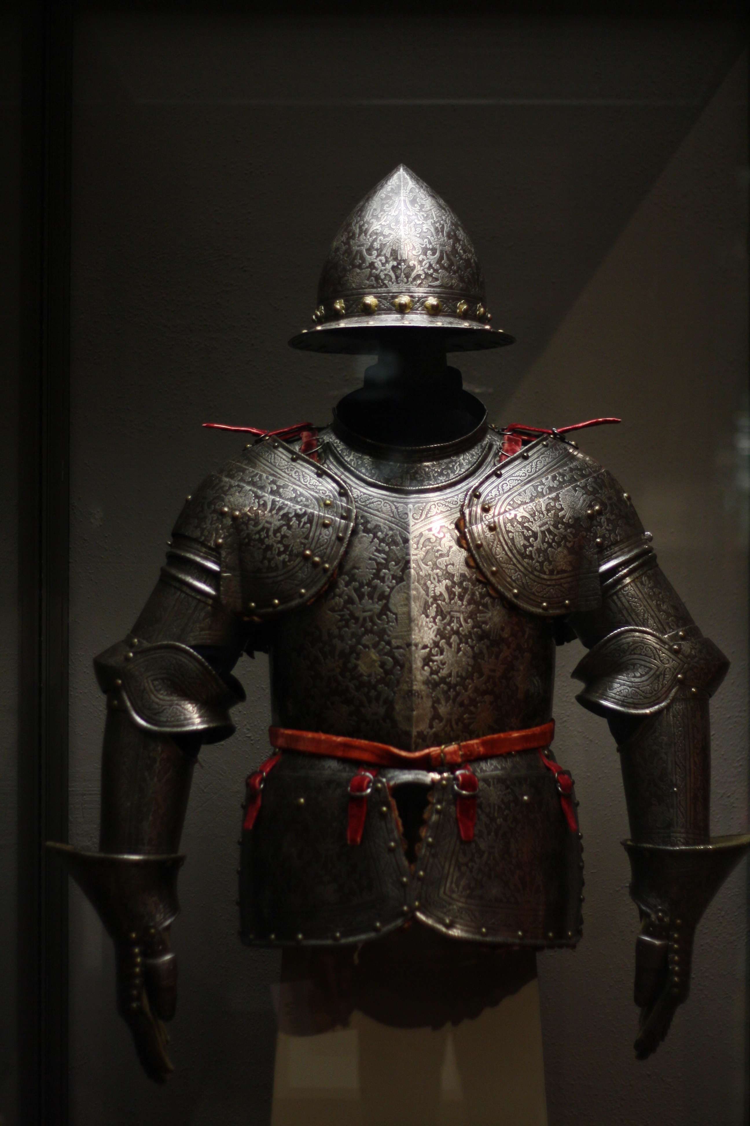 An etched and partially russeted and gilded half armor made of steel, brass, leather, and textiles: it was created around 1600 in Milan. This armor resides in the Philadelphia Art Museum as part of the Carl Otto Kretzschmar von Kienbusch Collection (Accession number: 1977-167-34).[1]